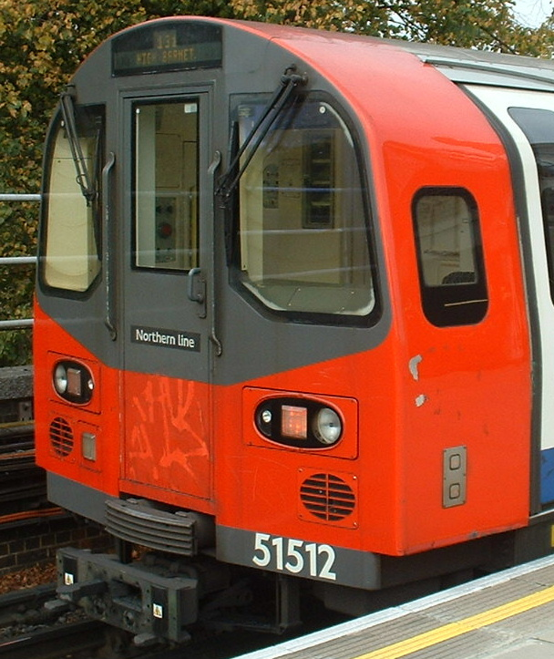 Picture of cab of London Underground Northern line train at East Finchley station. Sunil060902, 8th October 2007.